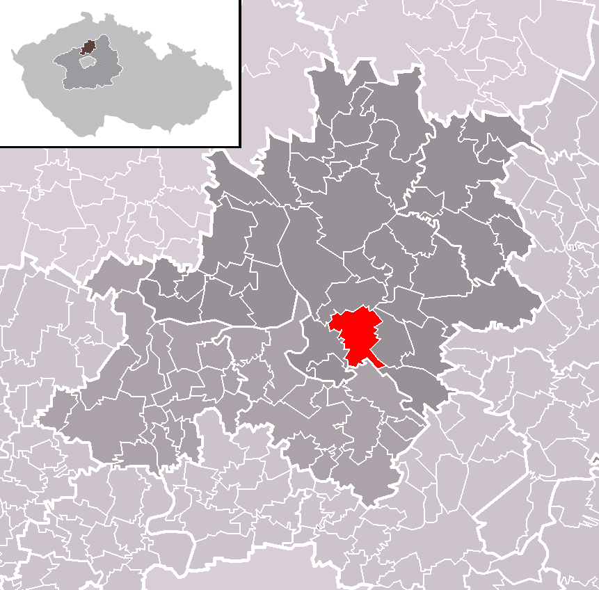 Location of Malý Újezd municipality within Mělník District and administrative area of Mělník as a Municipality with Extended Competence.